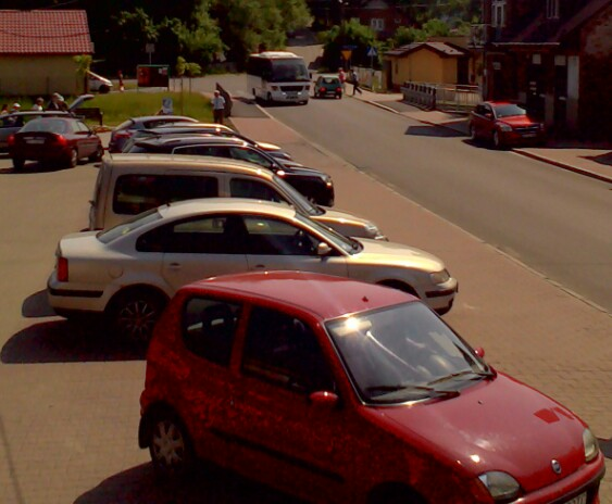 Tenczynek